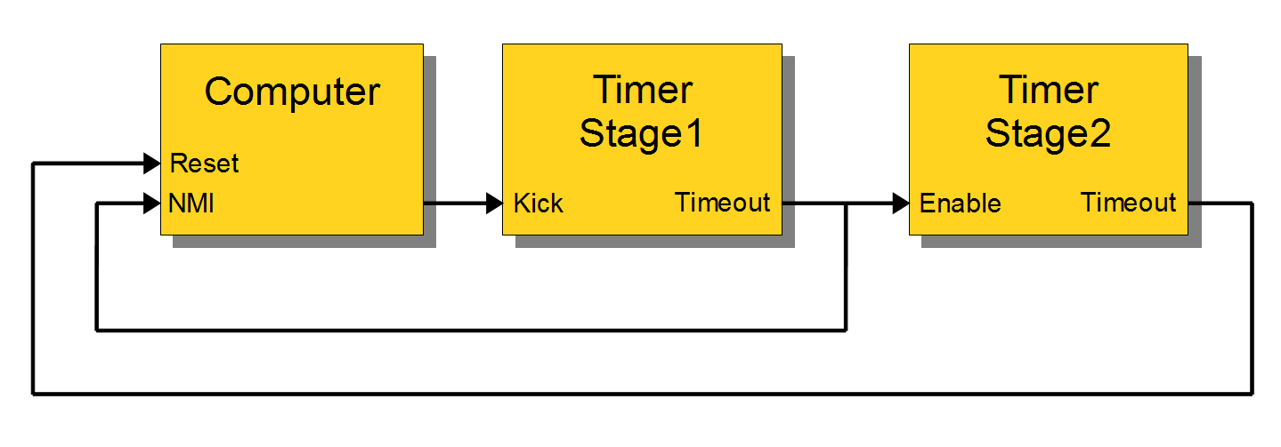 Block diagram of 2-stage watchdog timer.